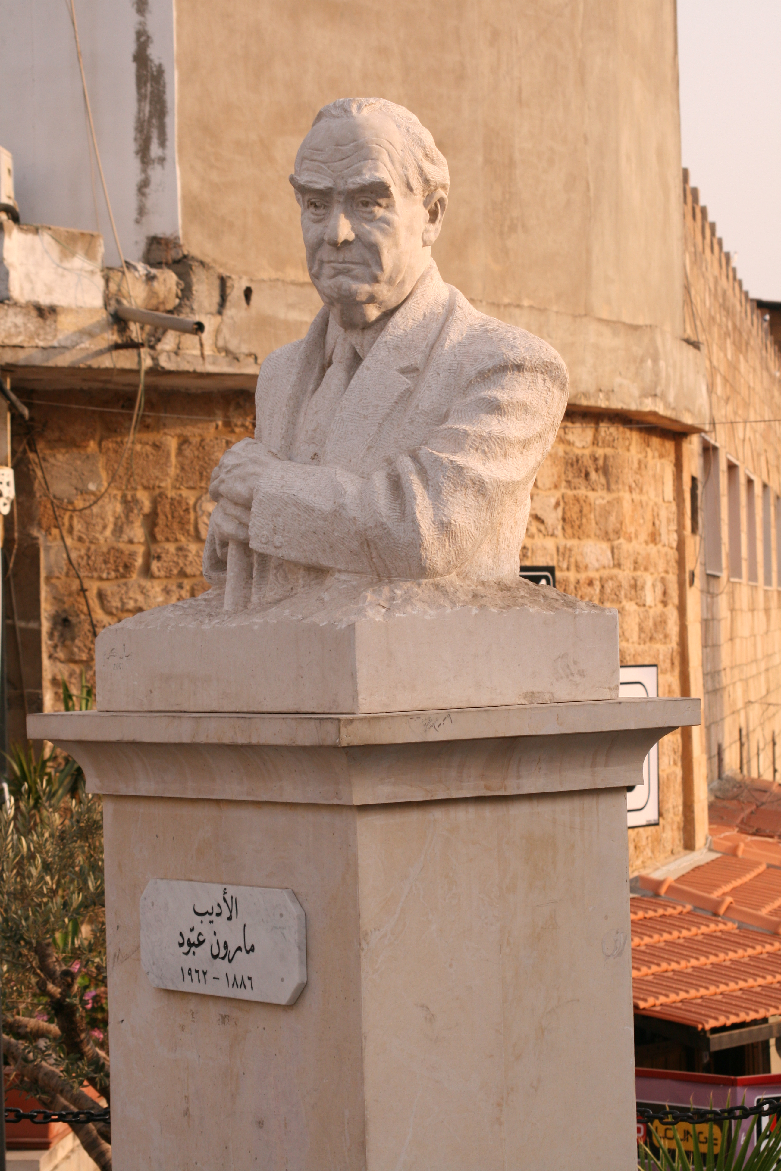 Marun Abbud portrayed in a statue in Byblos, Lebanon.